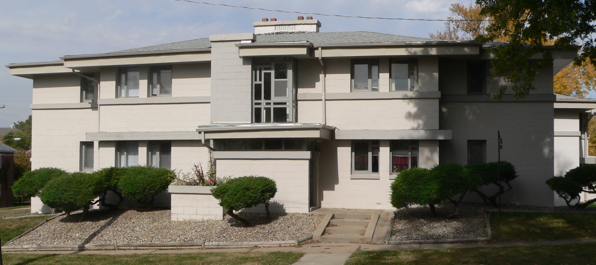 3710 Marcy Street in Omaha, Nebraska; one of three buildings making up the Selby Apartments. View is from the south.